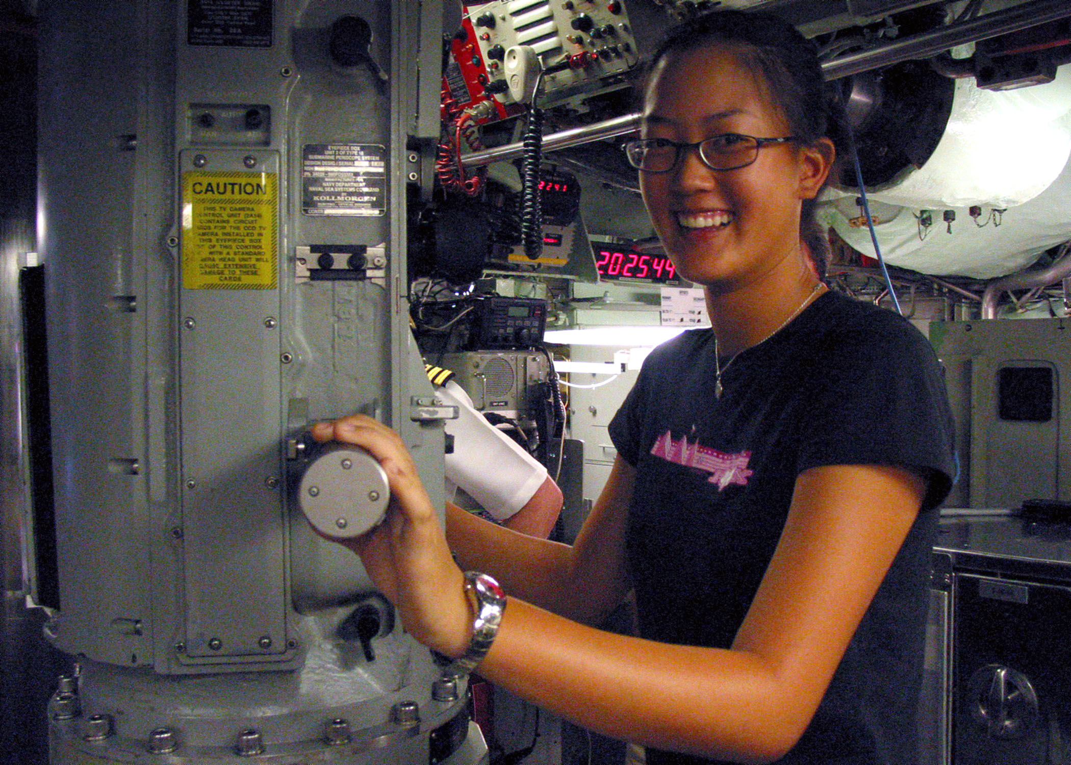 Pearl Harbor, Hawaii (Feb 9, 2004) - Hawaii teenage golf star, Michelle Wie, met with Sailors and toured the nuclear-powered attack submarine USS Honolulu (SSN 718) with her parents and friends. The tour ended with lunch in the officer’s wardroom with the ship’s Commanding Officer, Cmdr. Charles Harris. U.S. Navy photo by Chief Journalist David Rush. (RELEASED)